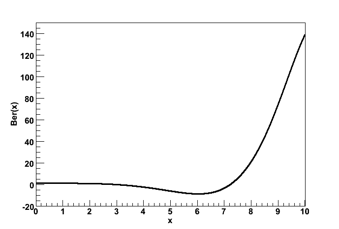 A plot of the Kelvin function Ber(x) between 0 and 10.